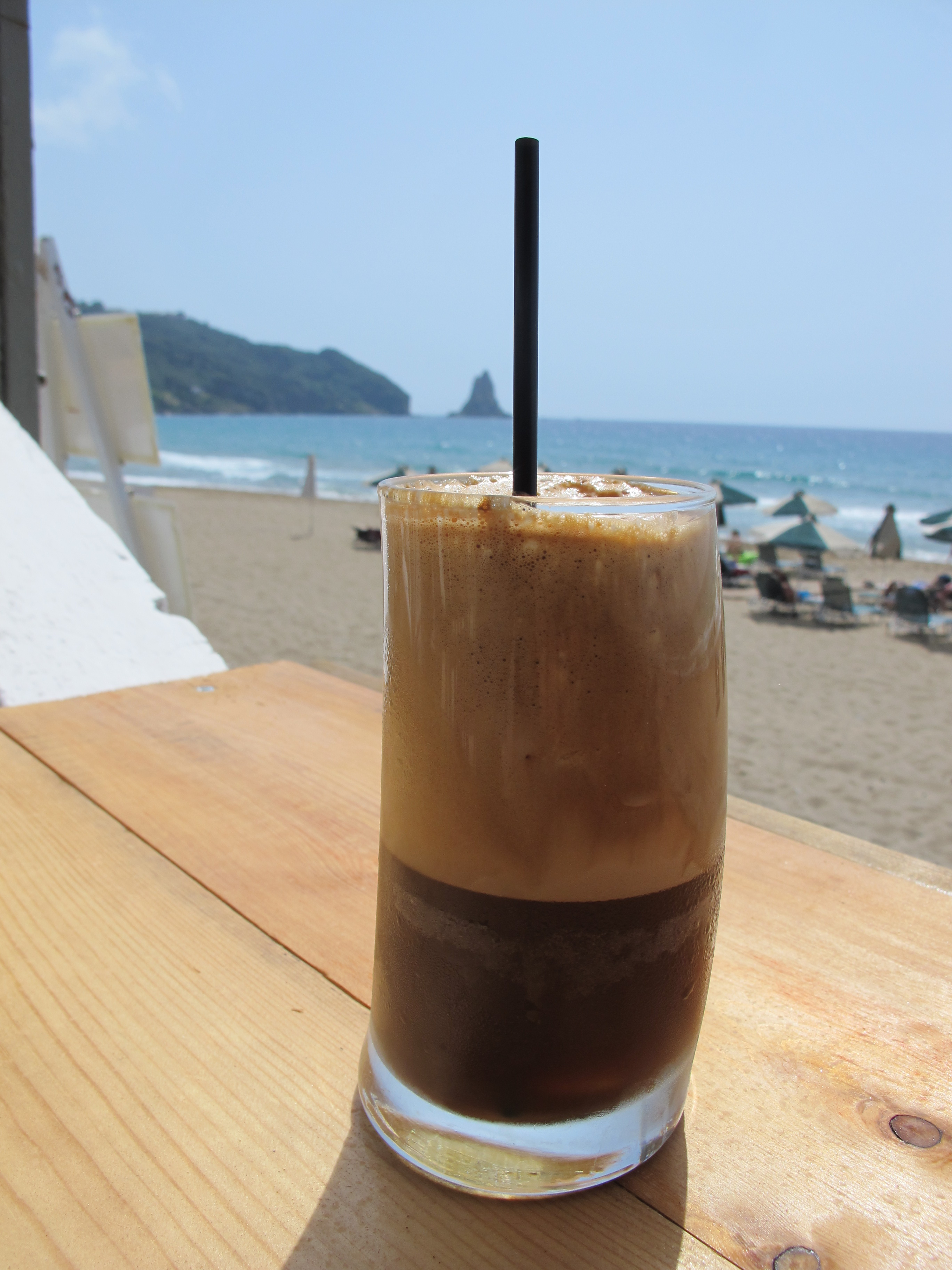 greek Frappé